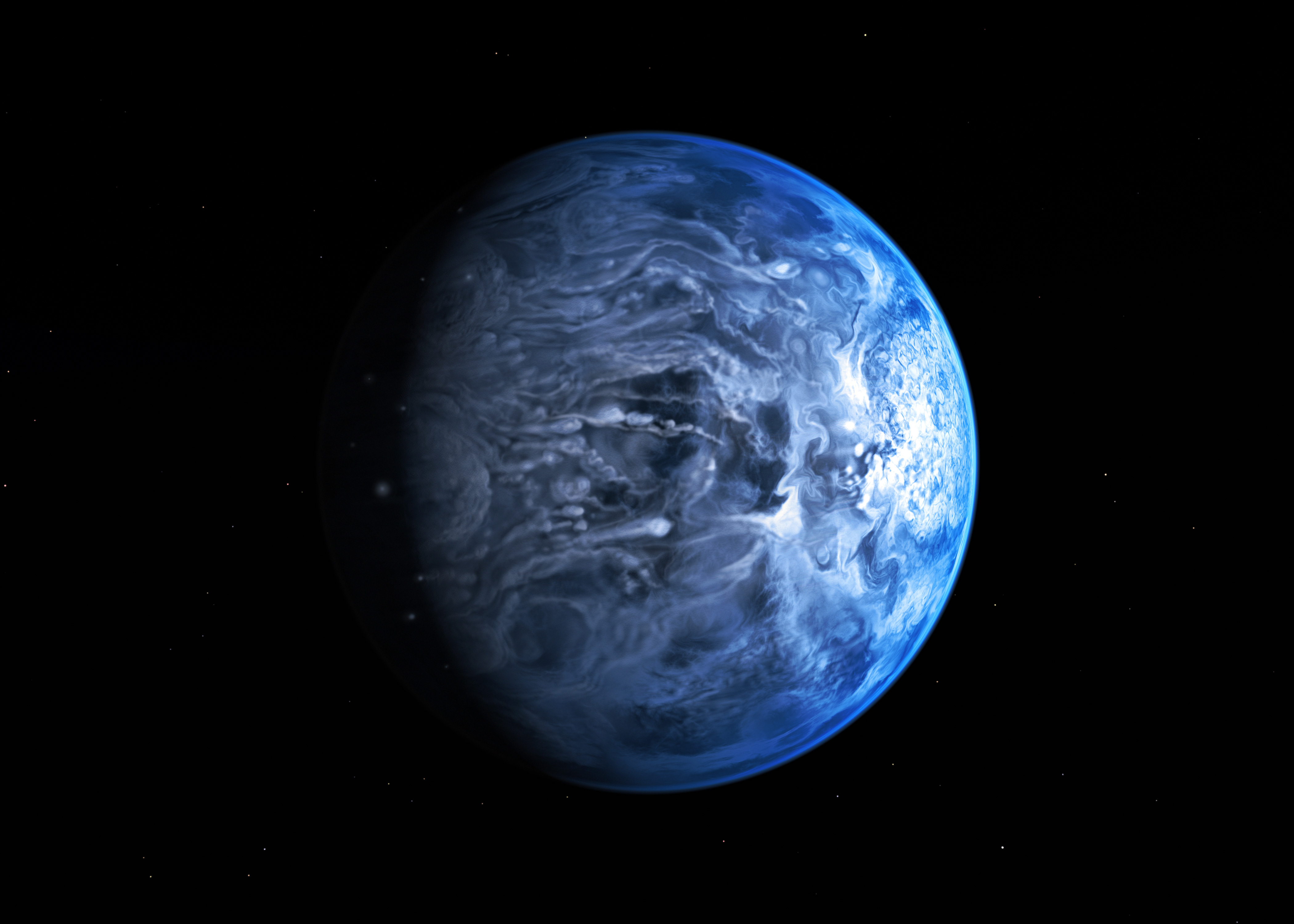 This illustration shows HD 189733b, a huge gas giant that orbits very close to its host star HD 189733. The planet's atmosphere is scorching with a temperature of over 1000 degrees Celsius, and it rains glass, sideways, in howling 7000 kilometre-per-hour winds. At a distance of 63 light-years from us, this turbulent alien world is one of the nearest exoplanets to Earth that can be seen crossing the face of its star. By observing this planet before, during, and after it disappeared behind its host star during orbit, astronomers were able to deduce that HD 189733b is a deep, azure blue — reminiscent of Earth's colour as seen from space.